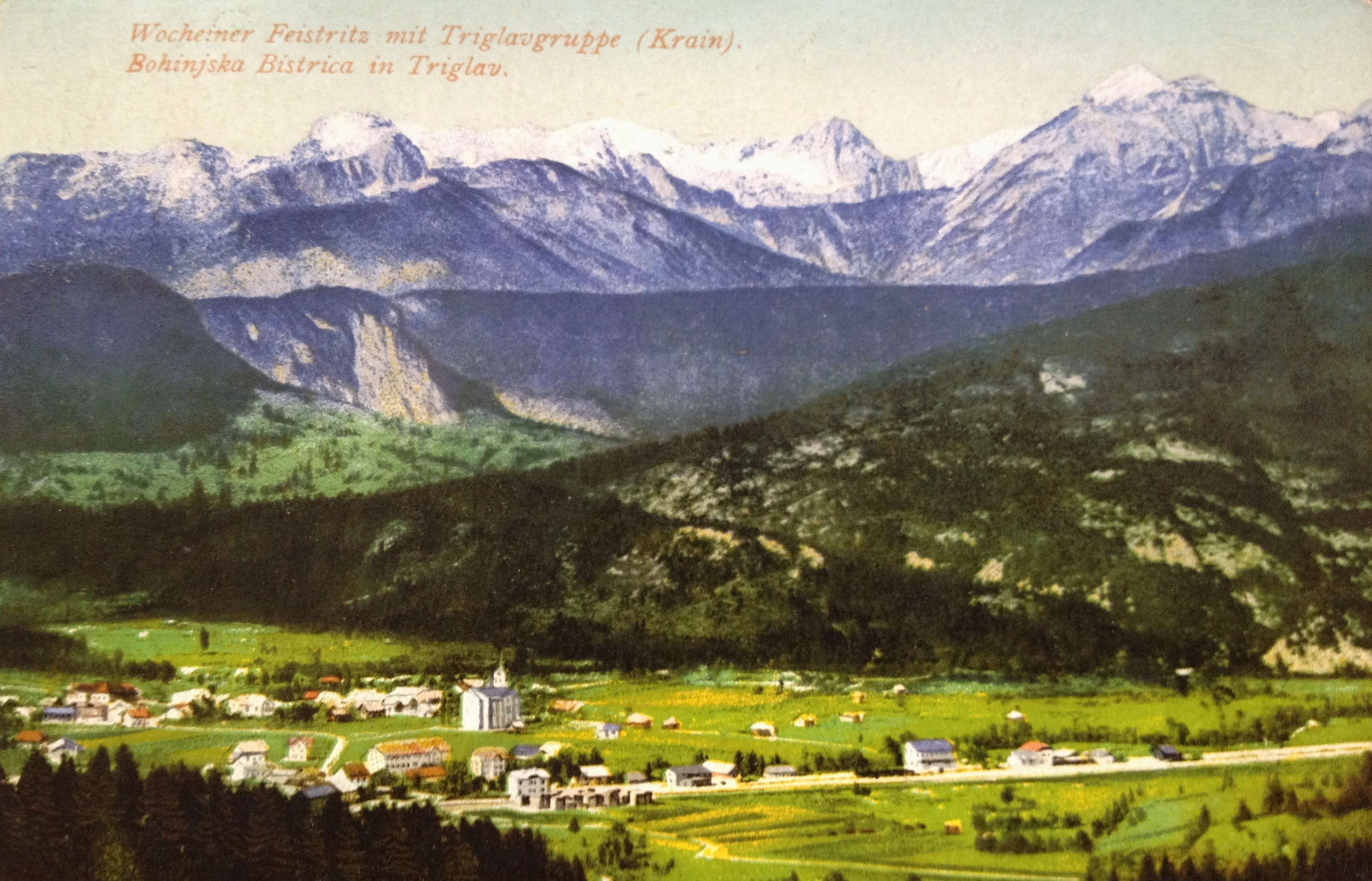 Postcard of Bohinjska Bistrica and Triglav